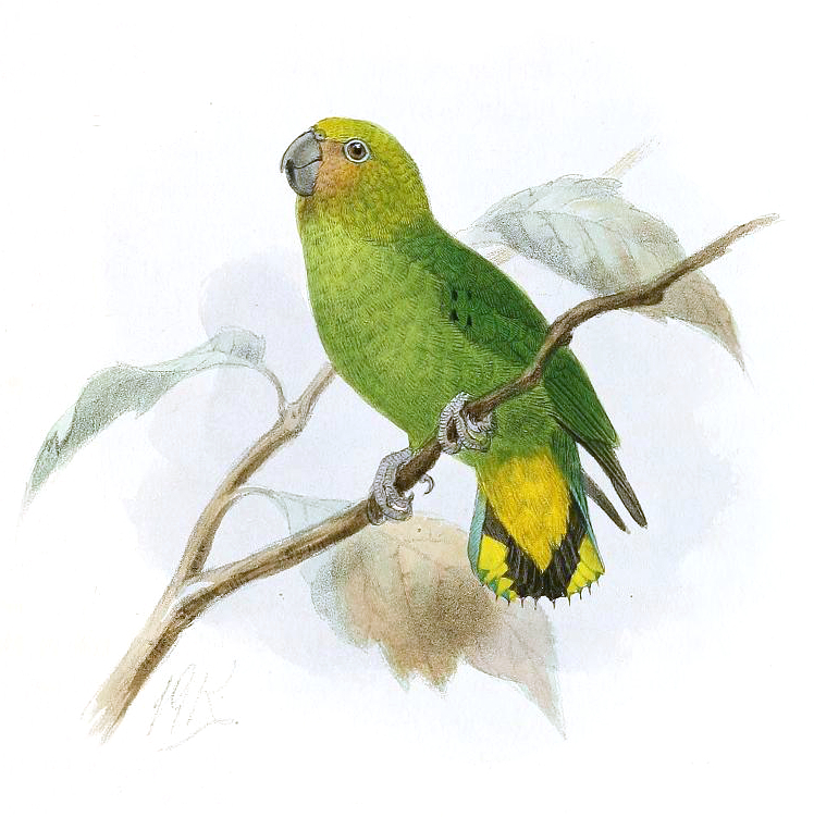 Nasiterna pygmaea (female) = Micropsitta keiensis (female) See: Peters, James Lee; Traylor, Melvin A. (Melvin Alvah); Mayr, Ernst; Greenway, James C. (James Cowan); Paynter, Raymond A; Cottrell, G. W. (George William): Check-list of birds of the world. (1931) Cambridge, Harvard University Press. S.168